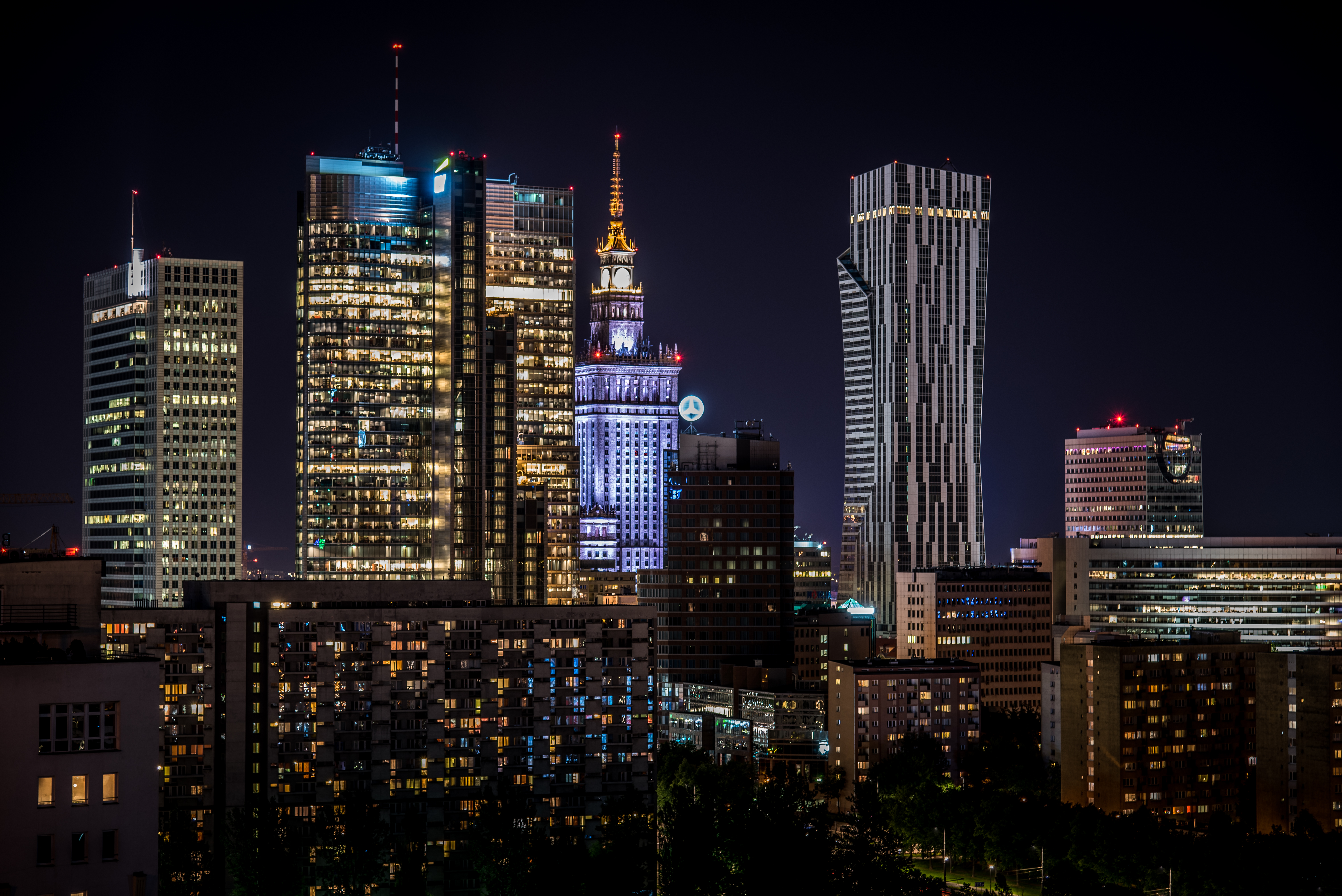 Warsaw by night.